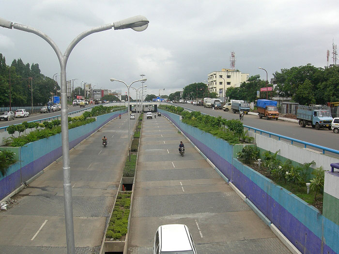 Pimpri-Chinchwad Maharashtra